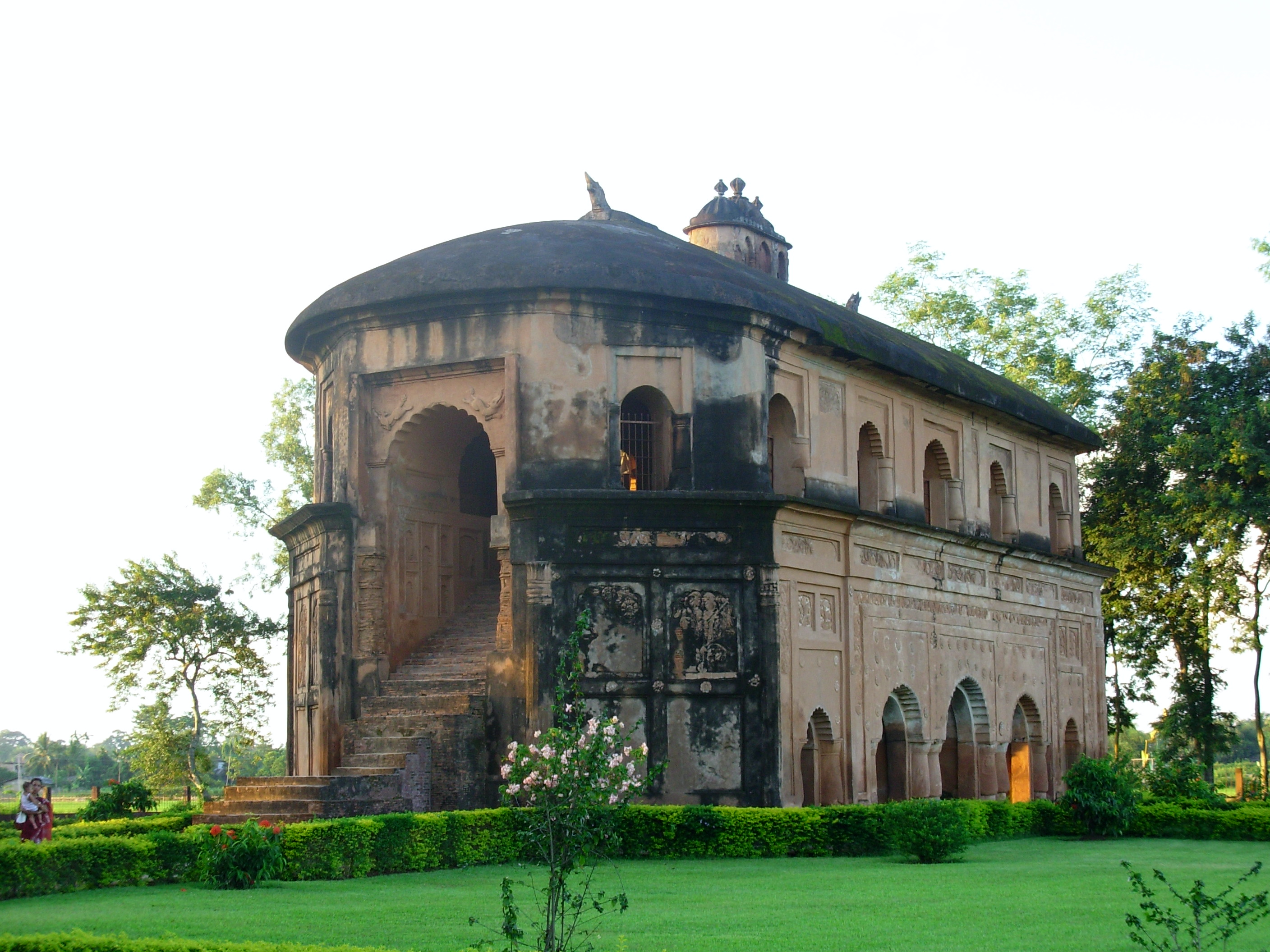 Rang Ghar, a palatial amphitheater built by the Ahom rulers of Assam from which the king watched sports and festivities on the grounds below. Located in the town of Sibsagar, Assam, India